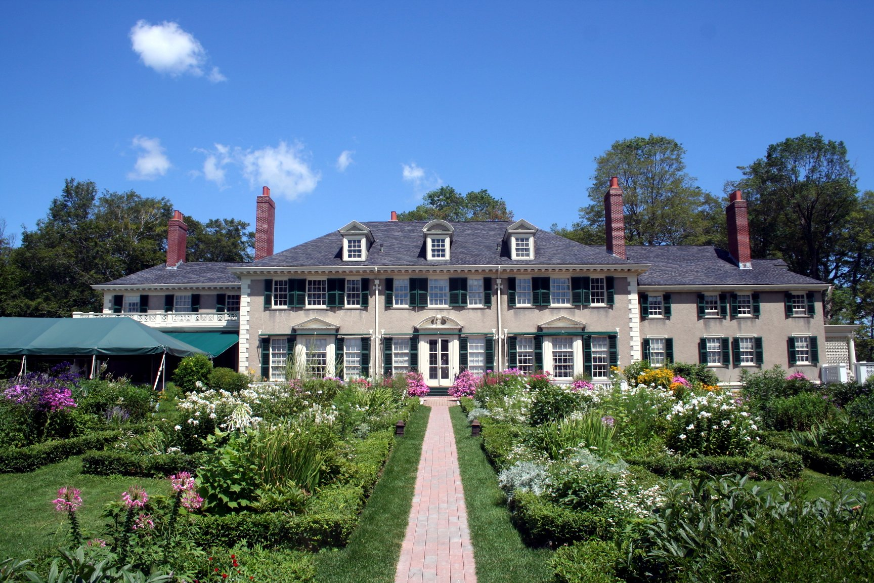 Photograph of Hildene mansion on the former estate of Robert Todd Lincoln in Manchester, Vermont, United States of America